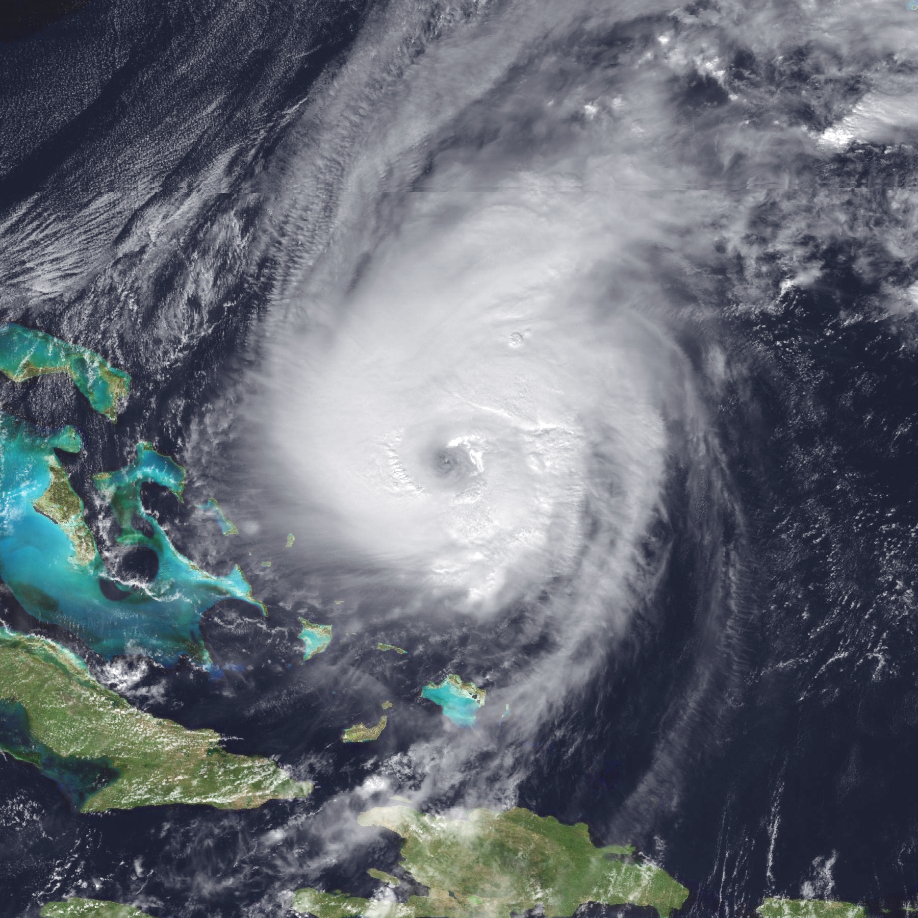 Hurricane Lili shortly after peak intensity accelerating northeastward into the Atlantic Ocean on October 19, 1996